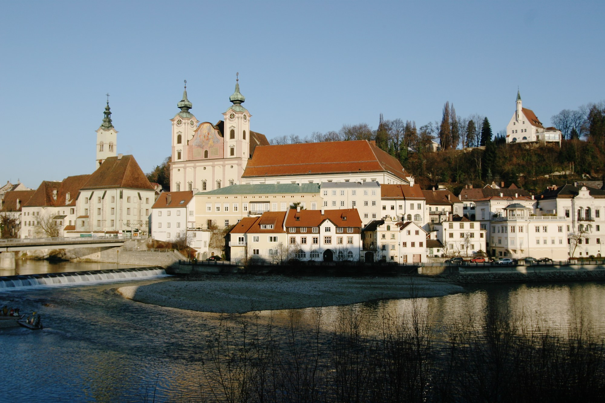 Steyrdorf with Michaelerkirche (Saint Michael's Church) in the city of Steyr, with river Enns in the foreground.